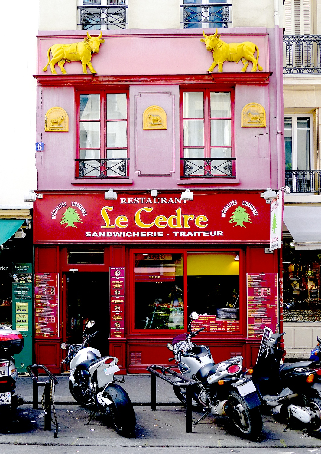 Mouffetard street - Paris